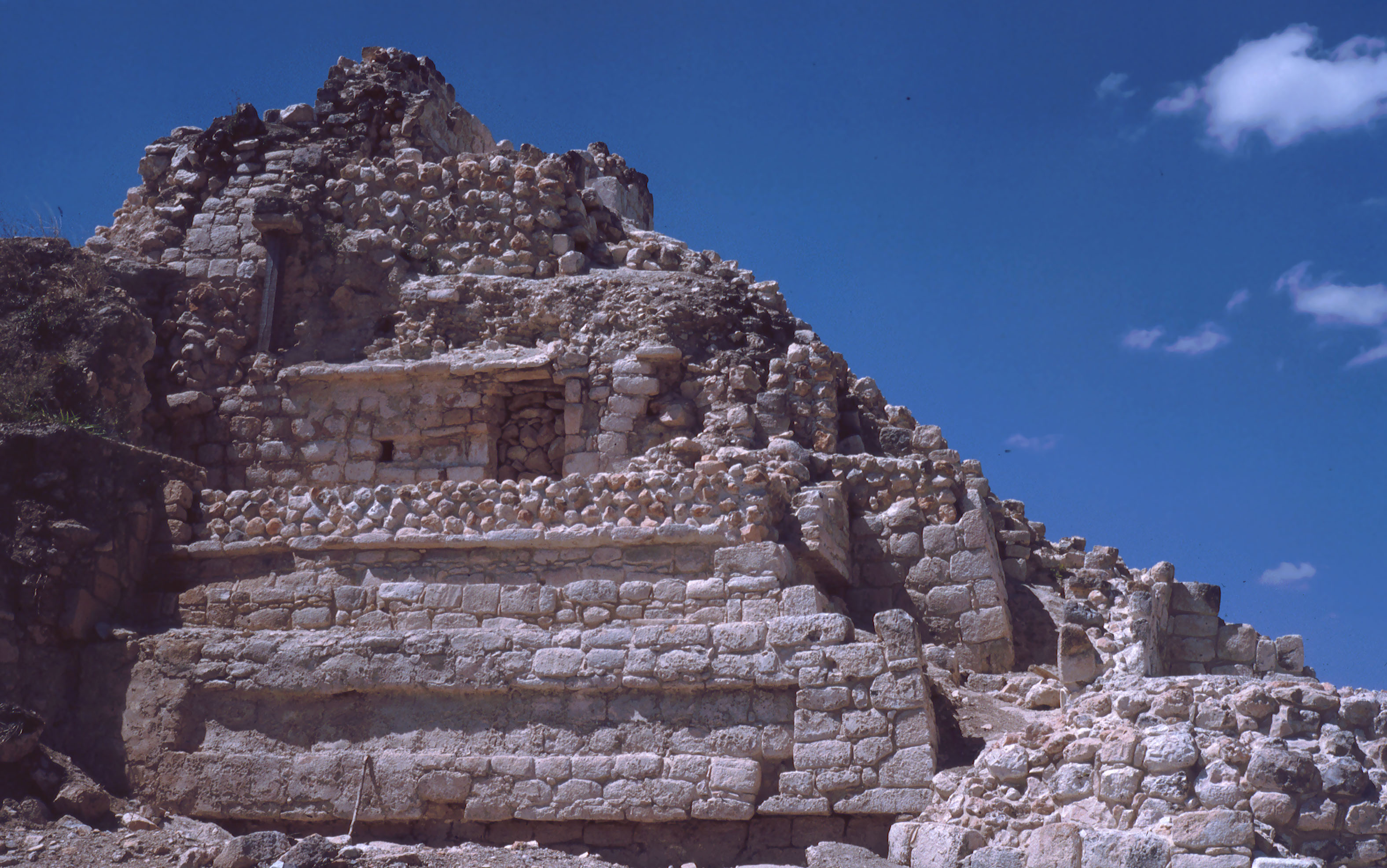 Oxkintoc, Yucatan, Mexico: Group May, Main pyramid, est side of earlier construction.